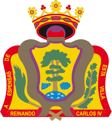 Campillo de Aranda seal